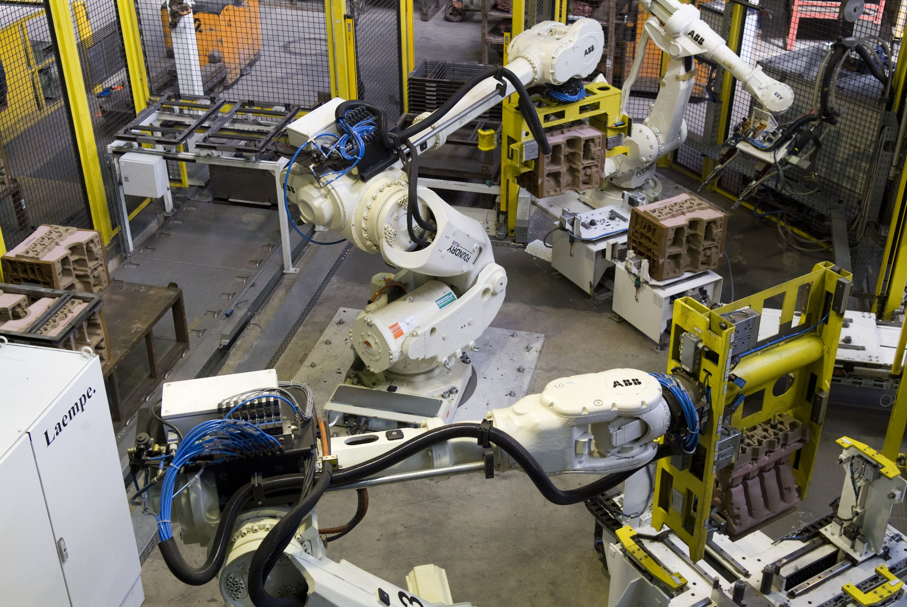 Automated core package assembly